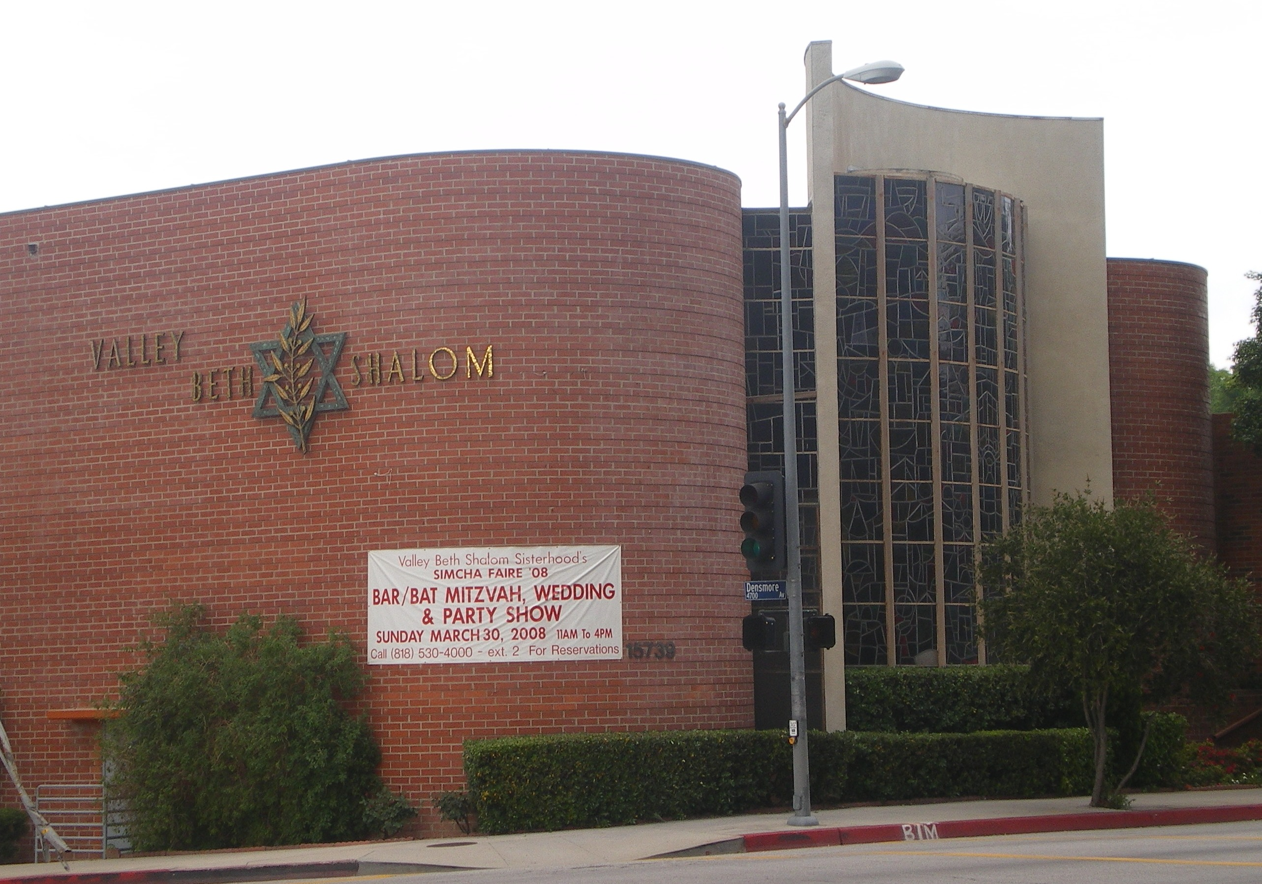 Valley Beth Shalom, Ventura Boulevard, Encino, San Fernando Valley—Los Angeles., California. Curved brick facade and stained glass windows.